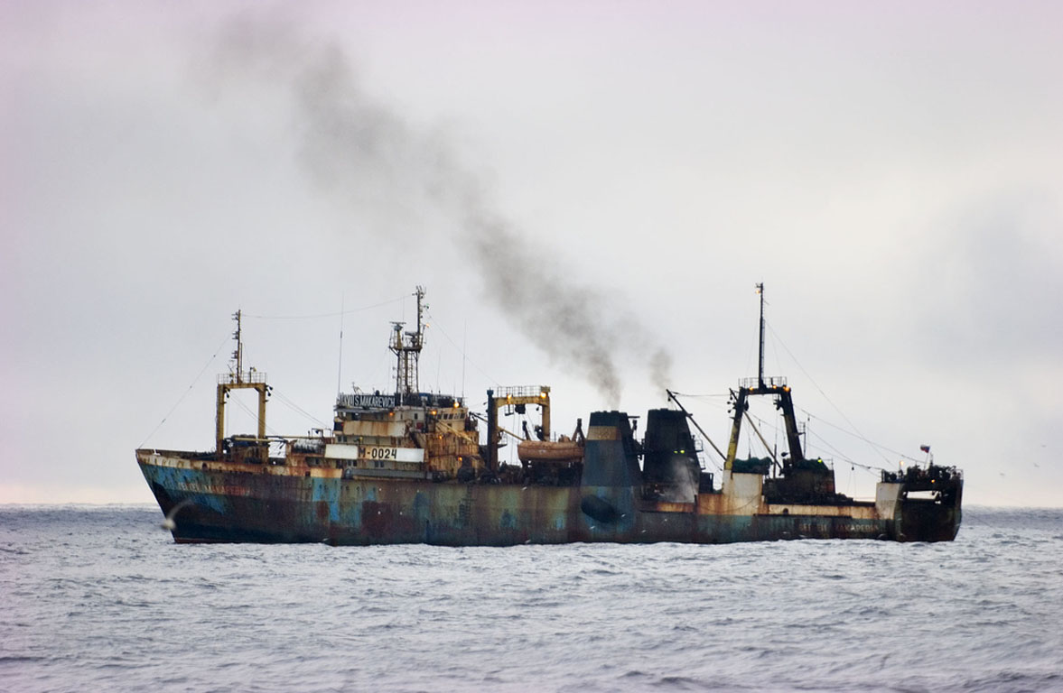 The russian trawler SERGEY MAKAREVICH in the North Atlantic. It has just hauled it's trawl on-board and was in full working order at the time. Information about Sergey Makarevich may be found at IMO 8015908. A ship can change her name and flag state through time, but the IMO number remains the same through the hull's entire lifetime. Therefore, it's useful to identify a ship through her IMO number.